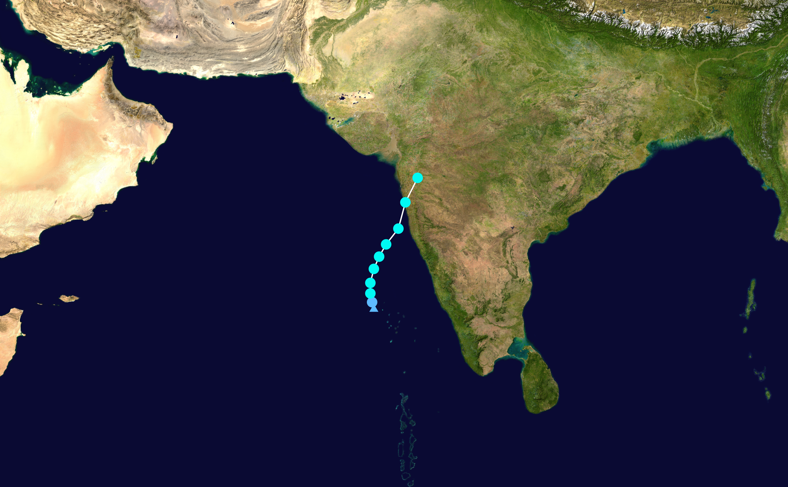 Track map of Cyclonic Storm Phyan of the 2009 North Indian Ocean cyclone season. The points show the location of the storm at 6-hour intervals. The colour represents the storm's maximum sustained wind speeds as classified in the Saffir–Simpson scale (see below), and the shape of the data points represent the nature of the storm, according to the legend below. Saffir–Simpson scale Tropical depression≤38 mph≤62 km/h Category 3111–129 mph178–208 km/h Tropical storm39–73 mph63–118 km/h Category 4130–156 mph209–251 km/h Category 174–95 mph119–153 km/h Category 5≥157 mph≥252 km/h Category 296–110 mph154–177 km/h Unknown Storm type Tropical cyclone Subtropical cyclone Extratropical cyclone / Remnant low / Tropical disturbance / Monsoon depression